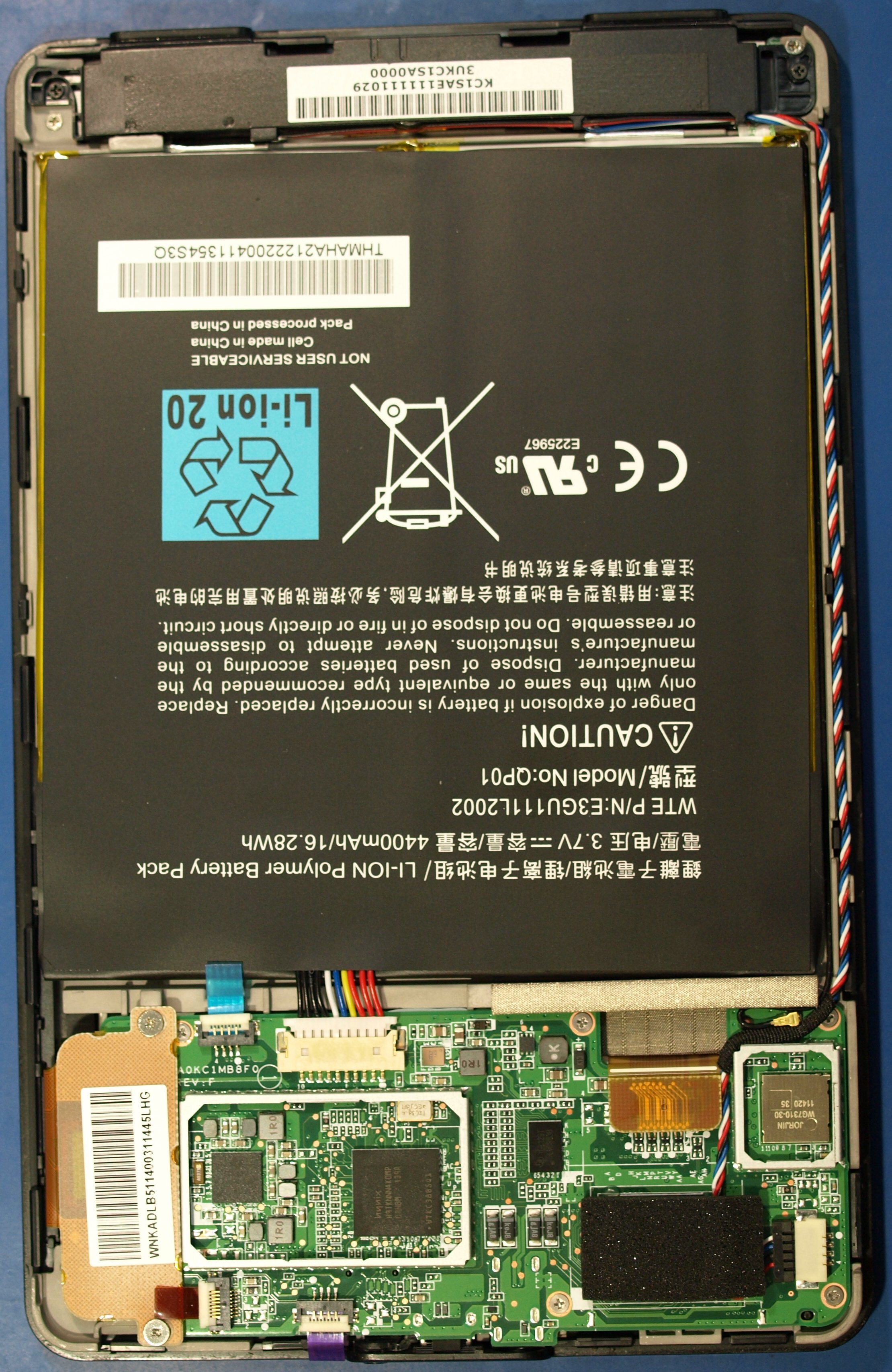 Inside the Kindle Fire, with back cover removed.